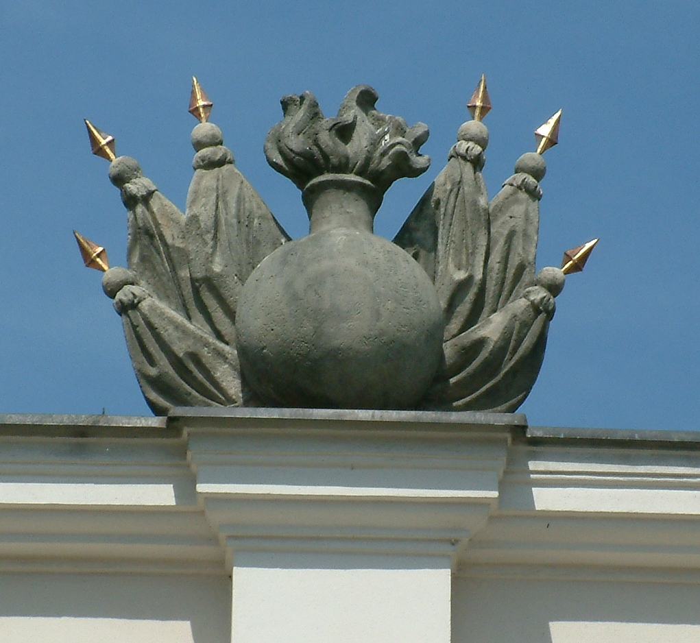 Sculpture of 18th century hand grenade on Poznań Guard House